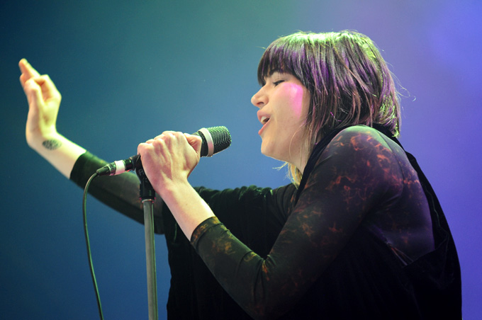 On The Bright Side festival 2011.